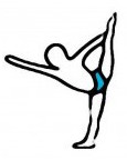 b_p5